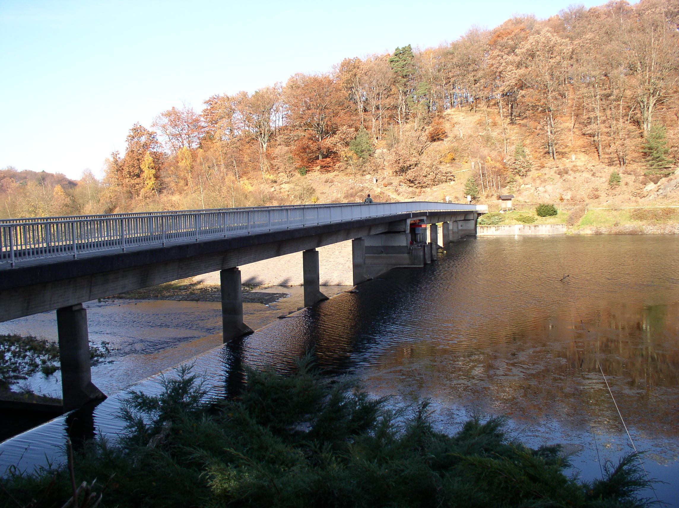 Wupper-Vorsperre der Wuppertalsperre / Wupper bassin of the Wupper dam